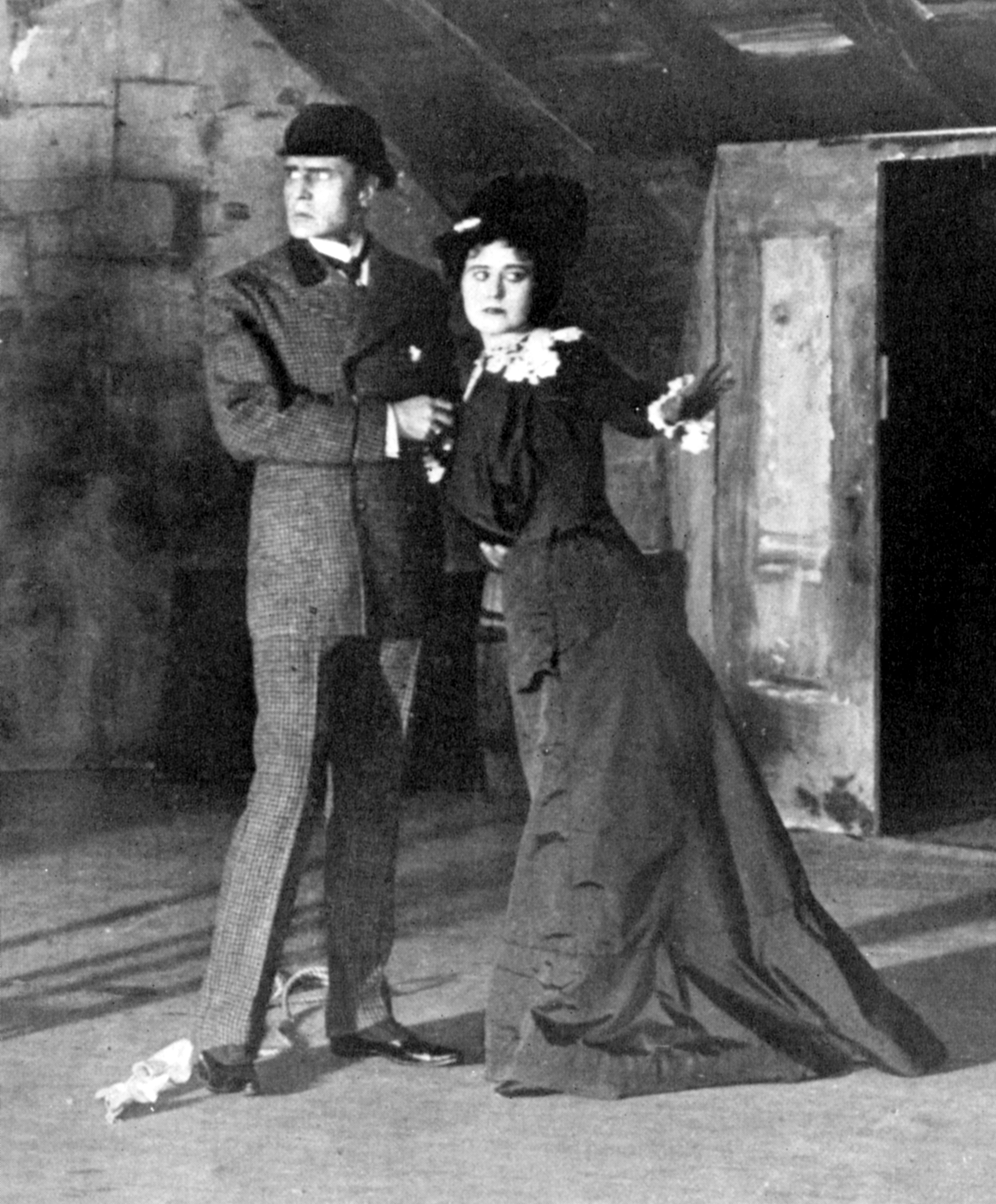 Detail of photograph of the Broadway production of Sherlock Holmes, with William Gillette as Sherlock Holmes and Katherine Florence as Alice Faulkner